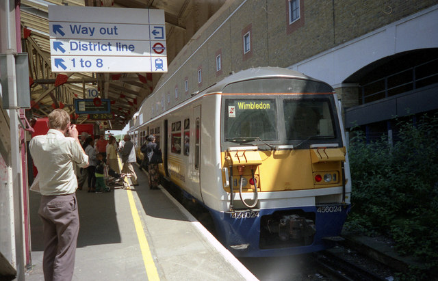 Last Day for Wimbledon to West Croydon 28 May 1997 was the final day of train service on the Wimbledon to West Croydon via Mitcham Junction line. Here a two-car electric unit in Connex South Central livery waits with one of the last departures from Platform 10 at Wimbledon.